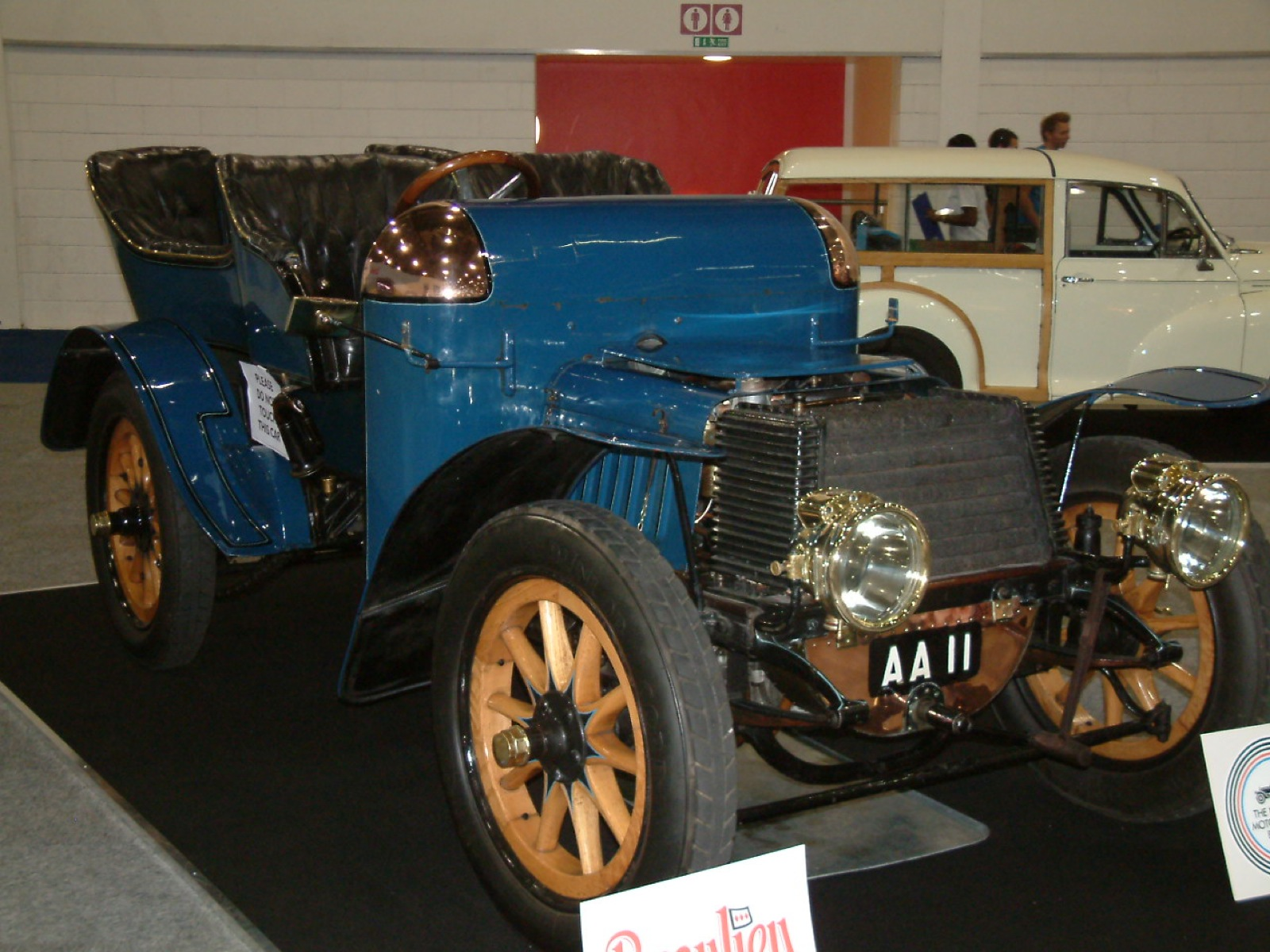 Daimler 22 h.p., 4503cc, 4 cylinder with tonneau body 1903Chain drive, no weather protectionMaximum speed 45mph, £1,050info source